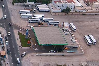 View of WOQOD (Qatar Fuel) gas station in Onaiza from 30th floor of Dareen Tower.